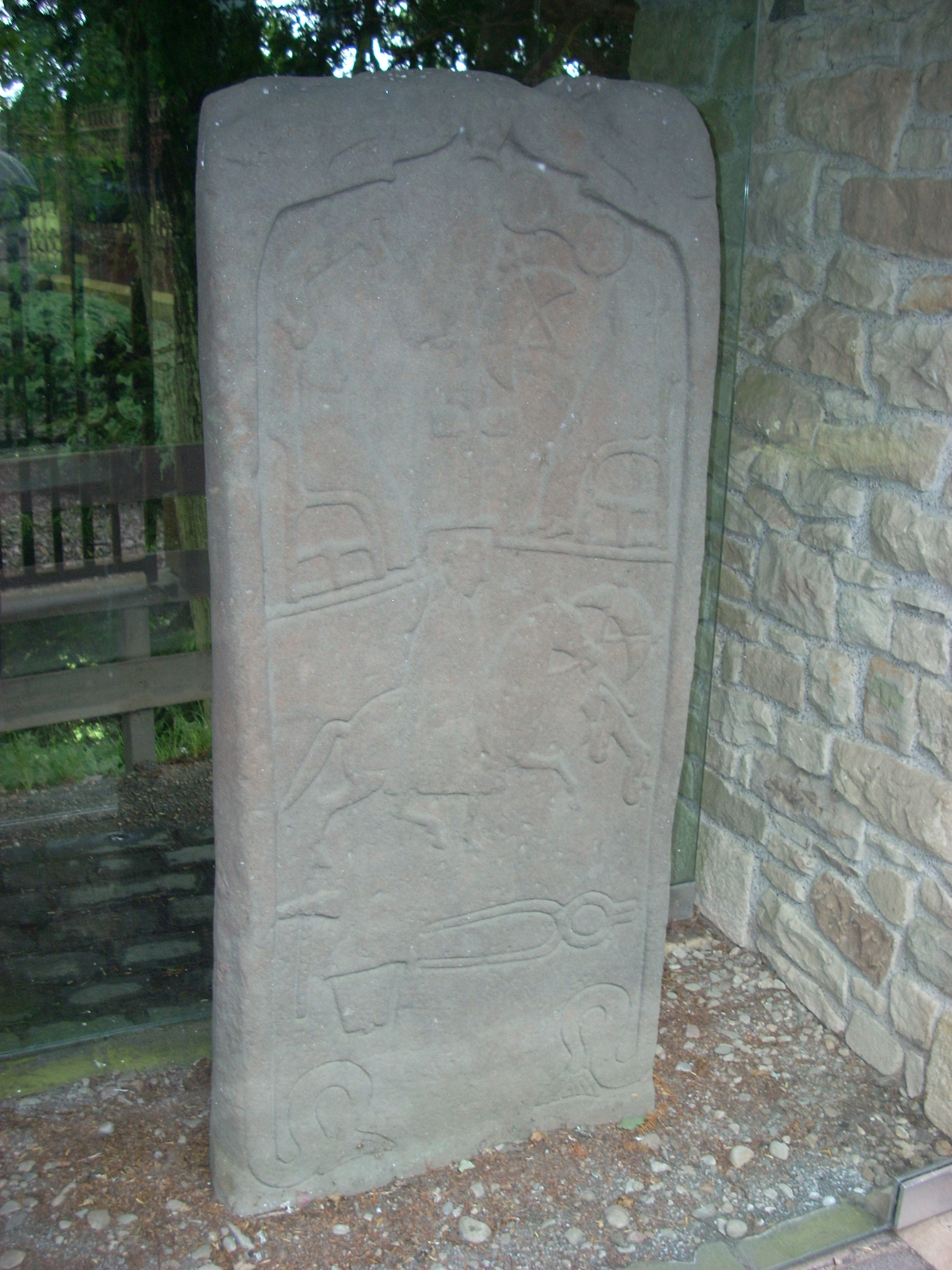 The Dunfallandy Stone, a Pictish stone near Pitlochry, Scotland.